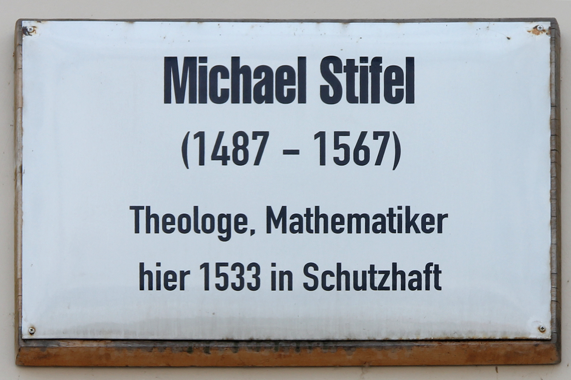 Memorial plaque, Michael Stifel, Schloßstraße 14-15, Lutherstadt Wittenberg, Germany